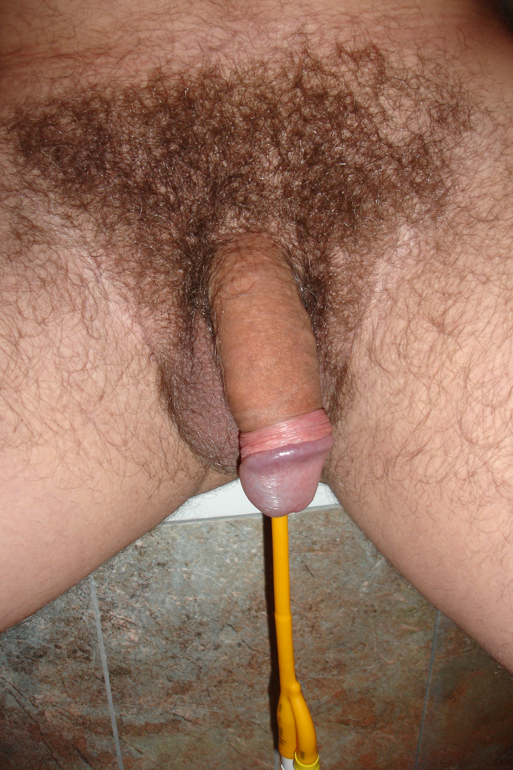 Foley catheter CH 20